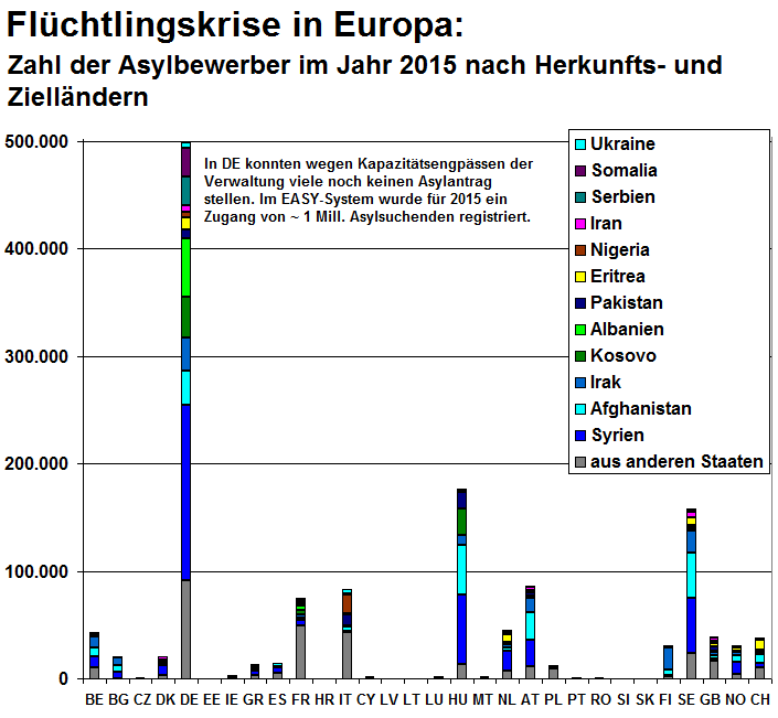 European migrant crisis. Asylum applicants in Europe in 2015 by source and destination countries.